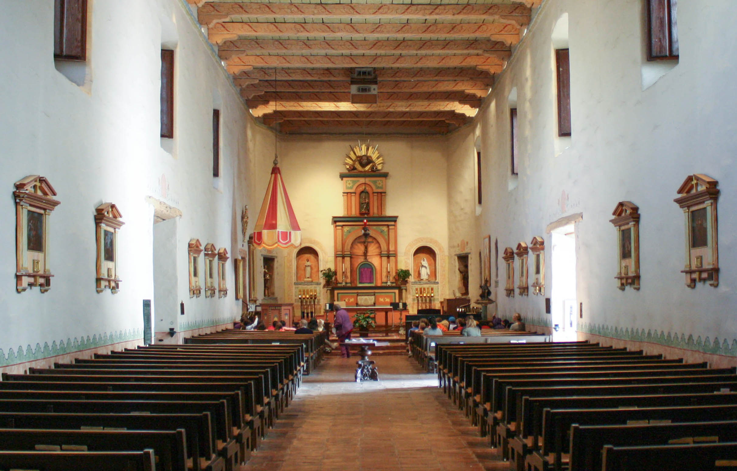 Interior of the Church of the Mission San Diego de Alcalá, San Diego, California